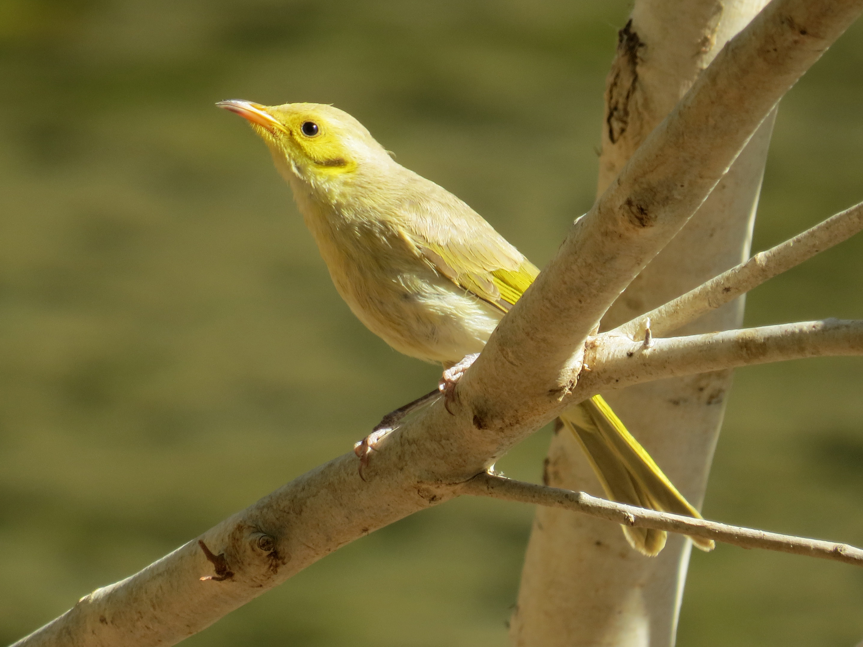 Yellow-tinted honeyeater photographed at Gregory River, Queensland. Original image cropped, no digital enhancement.